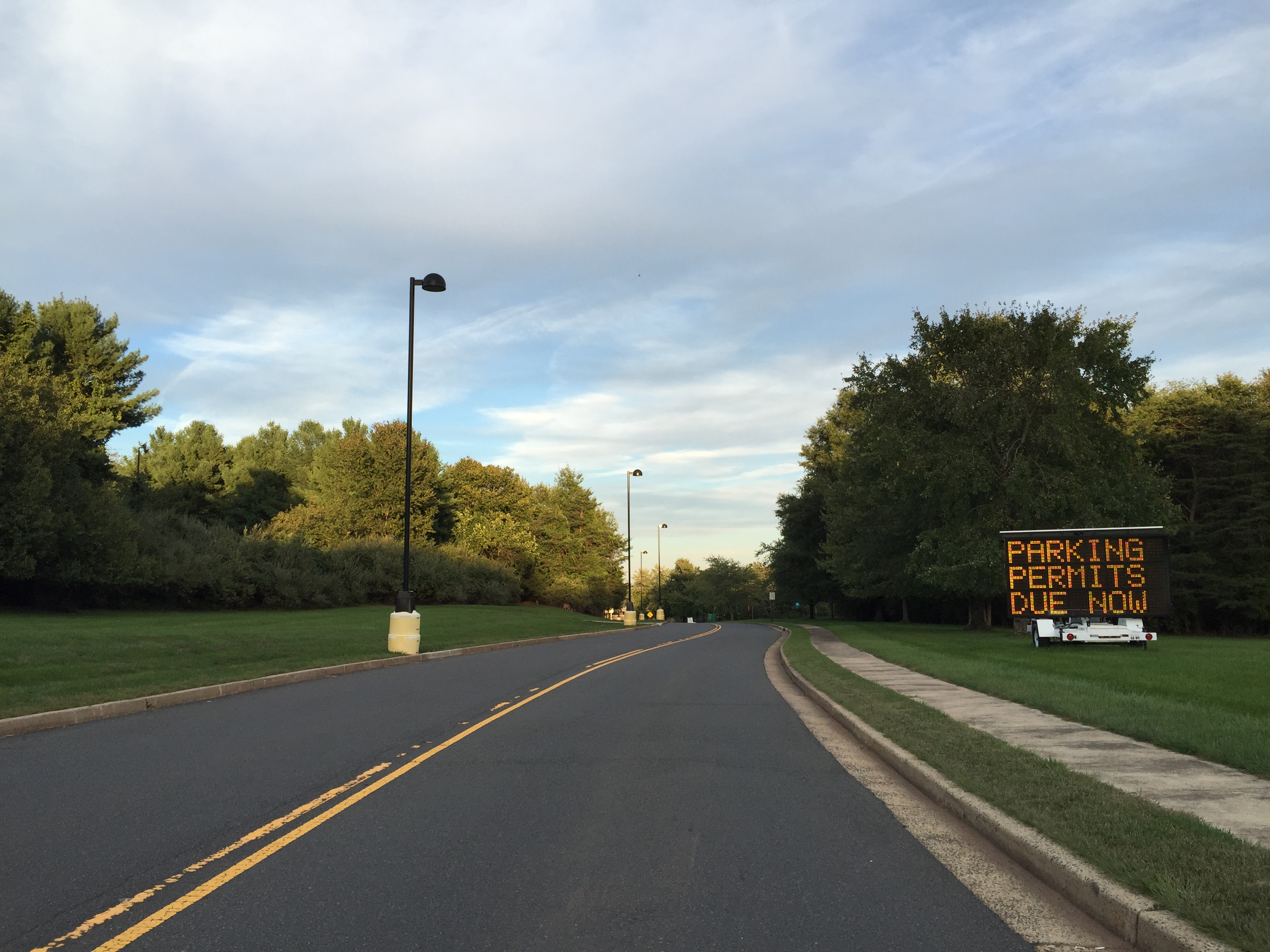 View east along Virginia State Route 393 at Virginia State Route 234 (Sudley Road), at the Northern Virginia Community College Manassas Campus in northern Prince William County, Virginia